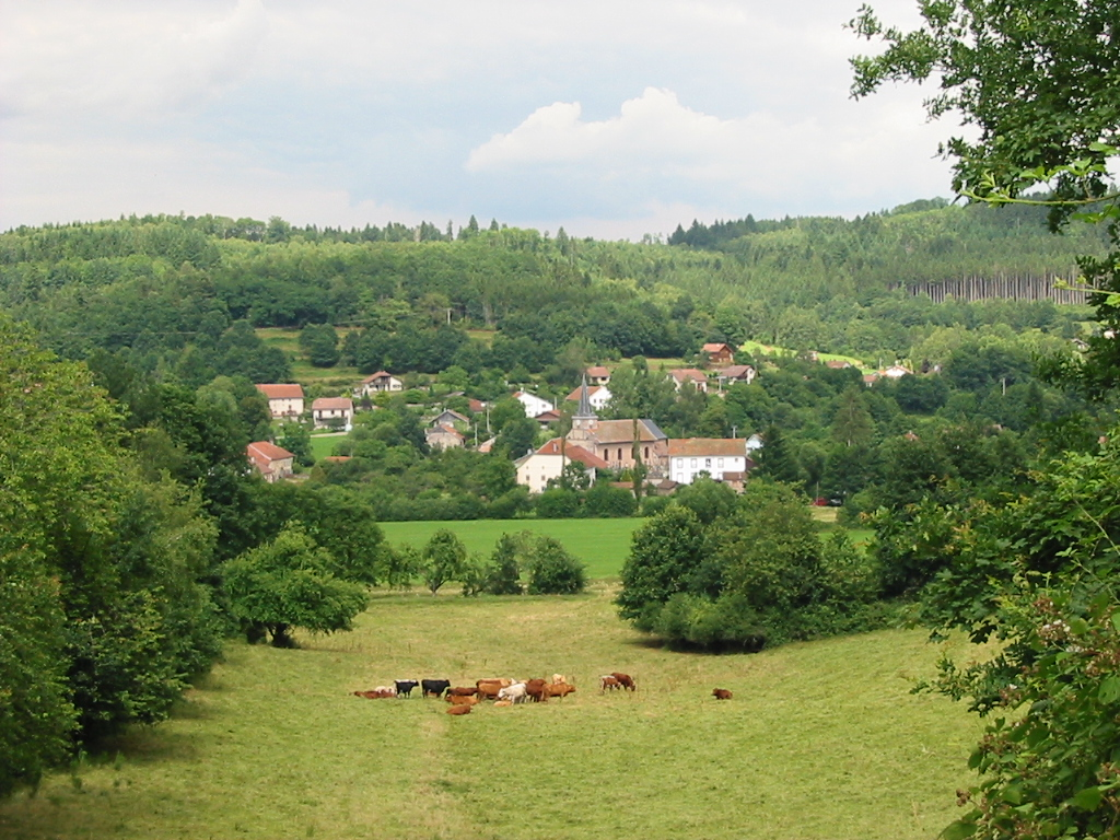 Coinches is a village and commune in the Vosges département of northeastern France.